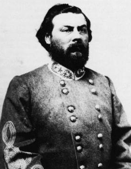 Junius Daniel, confederate general, from